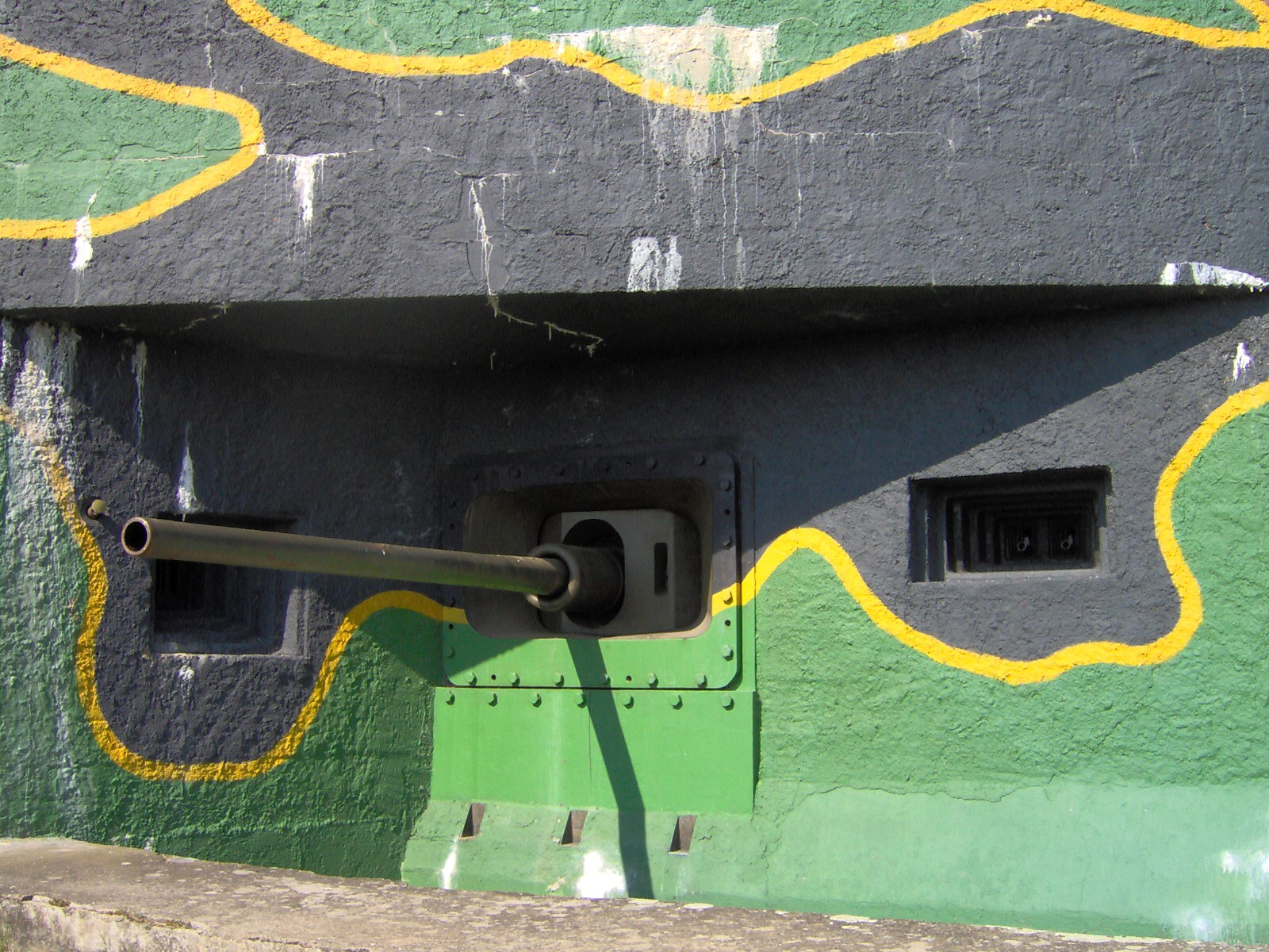 MJ-S 3 Zahrada infantry casemate, Znojmo District, Czech Republic